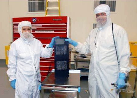 Microchip panel containing 1.6 million names prepared for Lunar Reconnaissance Orbiter (LRO)